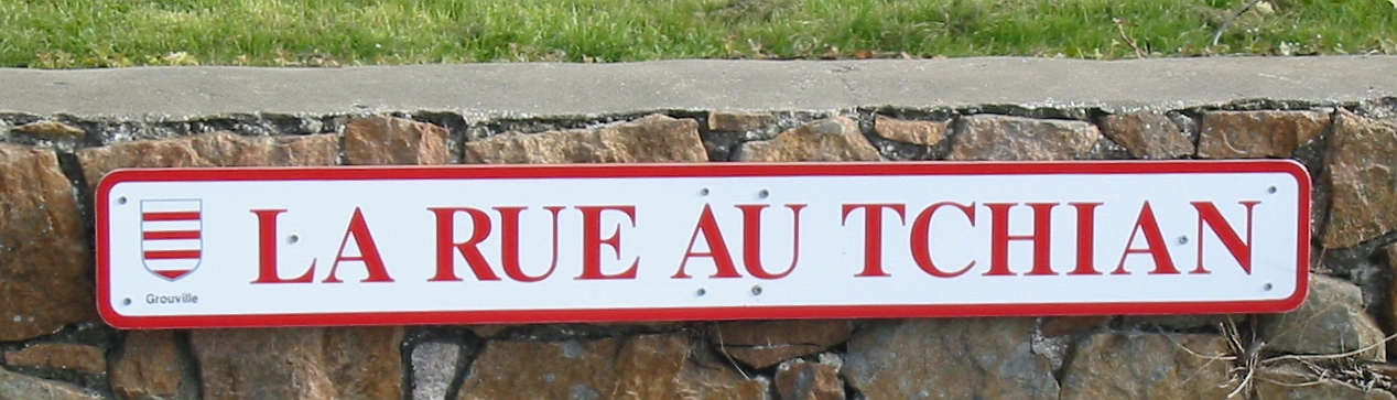 Jersey Nrf: Jèrri